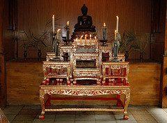 This 1000+ year old Buddhist Sala was a gift from Scouts of Thailand to Gilwell Park, England.